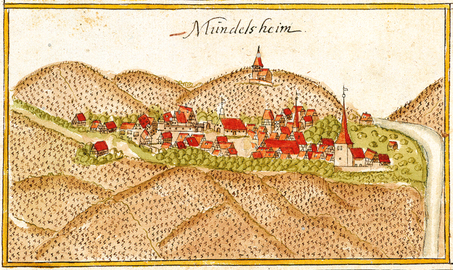 View of Mundelsheim from the forest register books created by Andreas Kieser